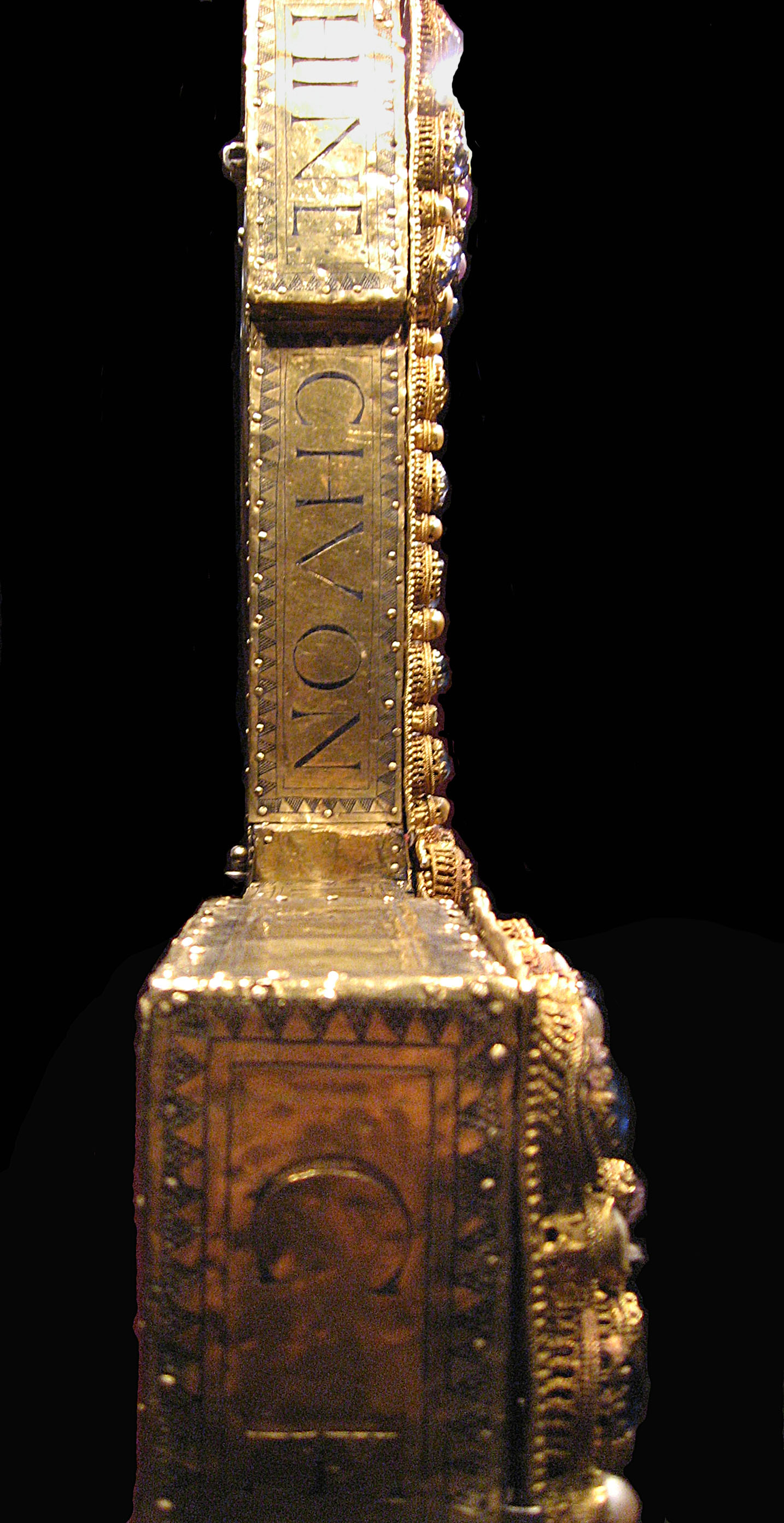 Imperial Cross Western Germany c. 1024/25 Oak base, recesses for relics, covered with red fabric and plated with gold foil Front: precious stones and pearls in raised mountings which could be lifted as plates Back and side walls: niello, iron pin H 77.5 cm, W 70.8 cm Base of the cross: Prague, 1352 Silver-gilt, enamel H 17.3 cm Overall height of the standing cross SK Inv. No. XIII 21